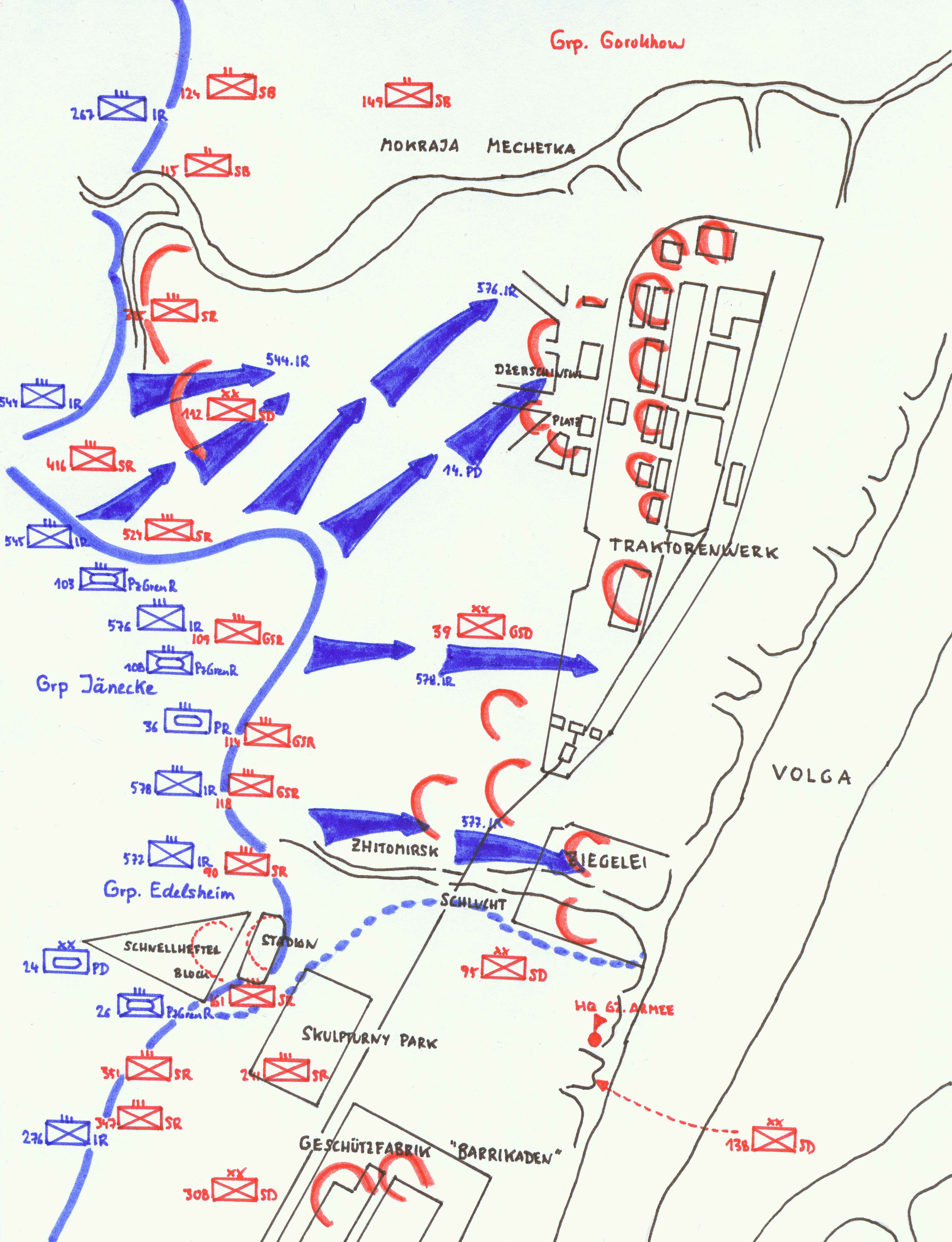 sketchline draw-out according to Glantz